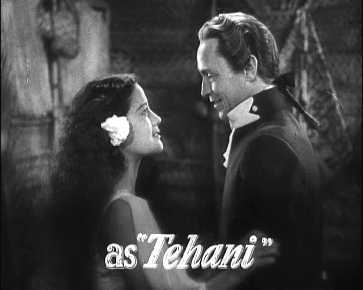 Movita Castaneda and Franchot Tone in a screenshot from the trailer for the film Mutiny on the Bounty.